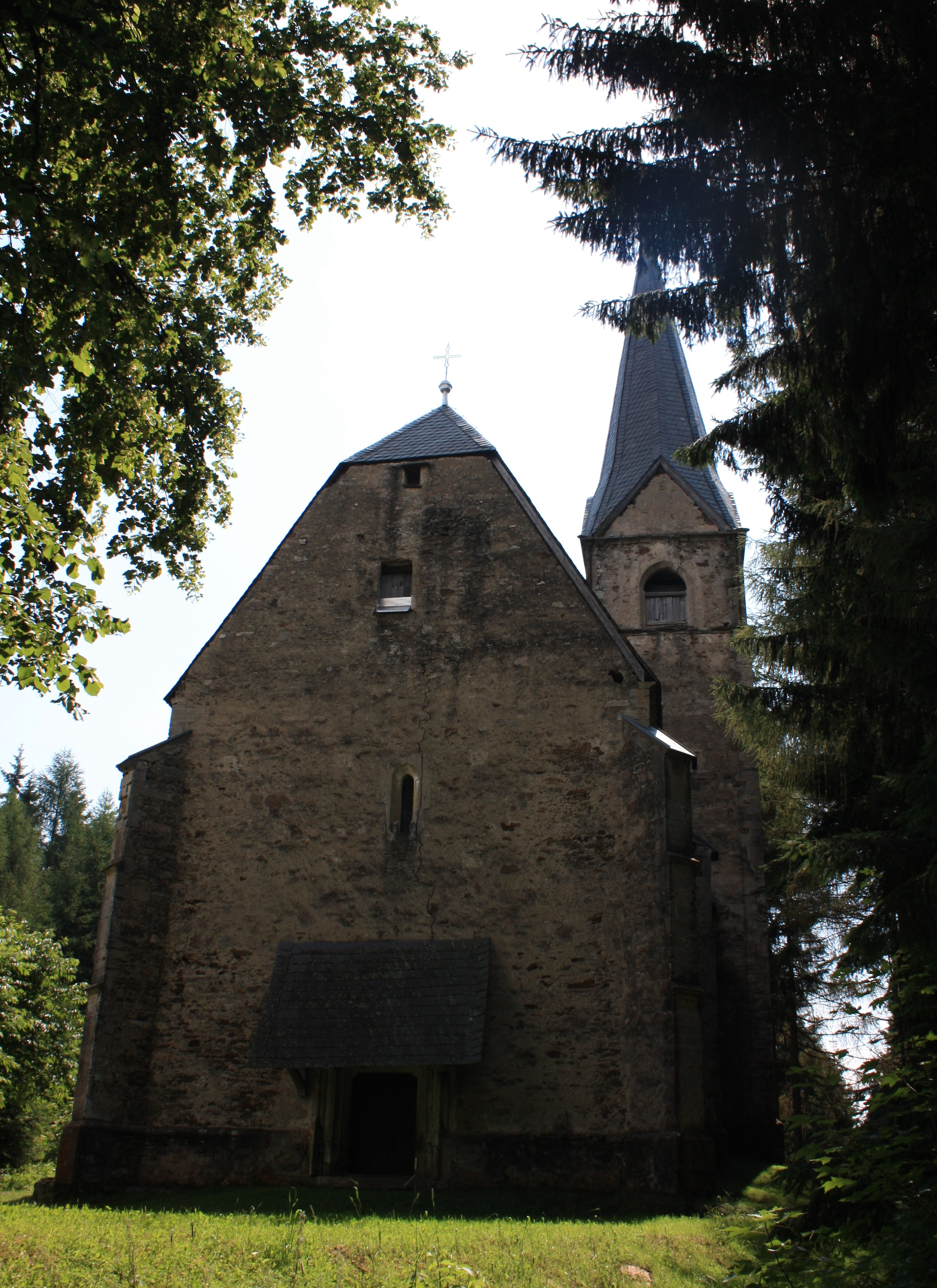 Subsidiary church Saint Leonard in St Leonhard an der Saualpe in the community of Griffen